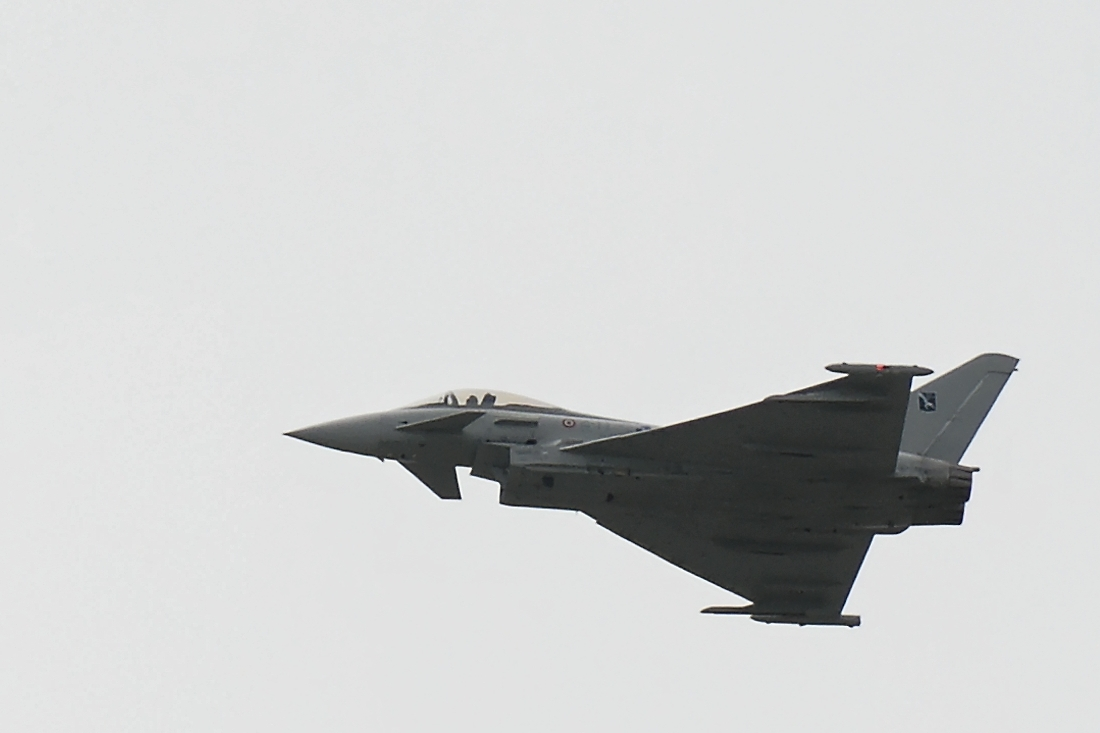 Eurofighter Typhoon during the 2007 International Paris Air Show at the Le Bourget airport.